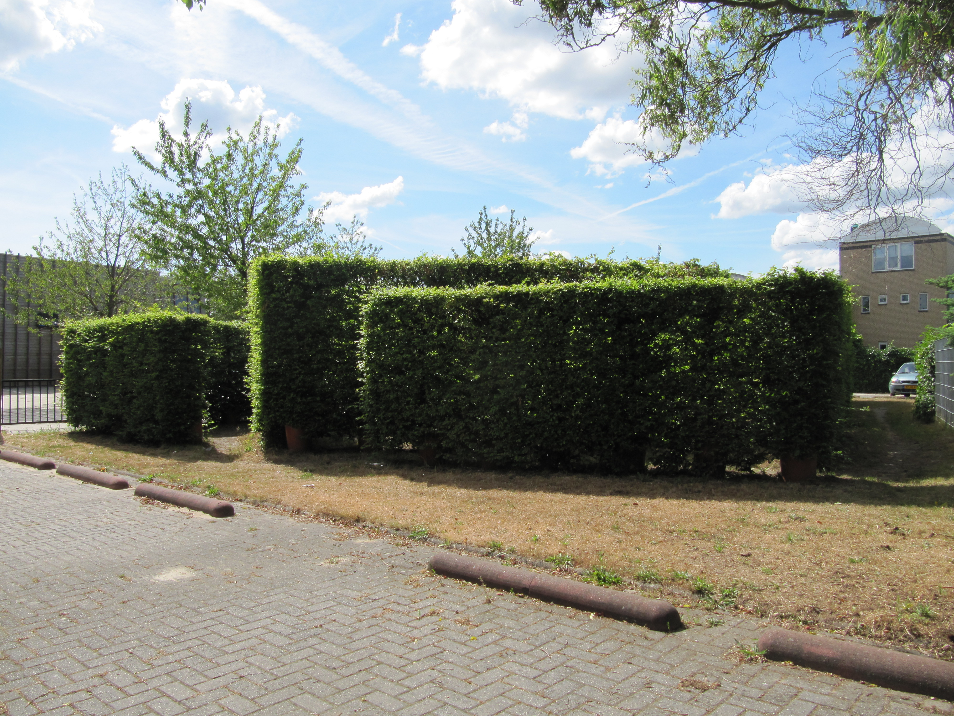 Work of art "Het Labyrinth" by Jacques Vieille at Het Labyrinth in the Verborgen Zone in Kattenbroek in Amersfoort, The Netherlands